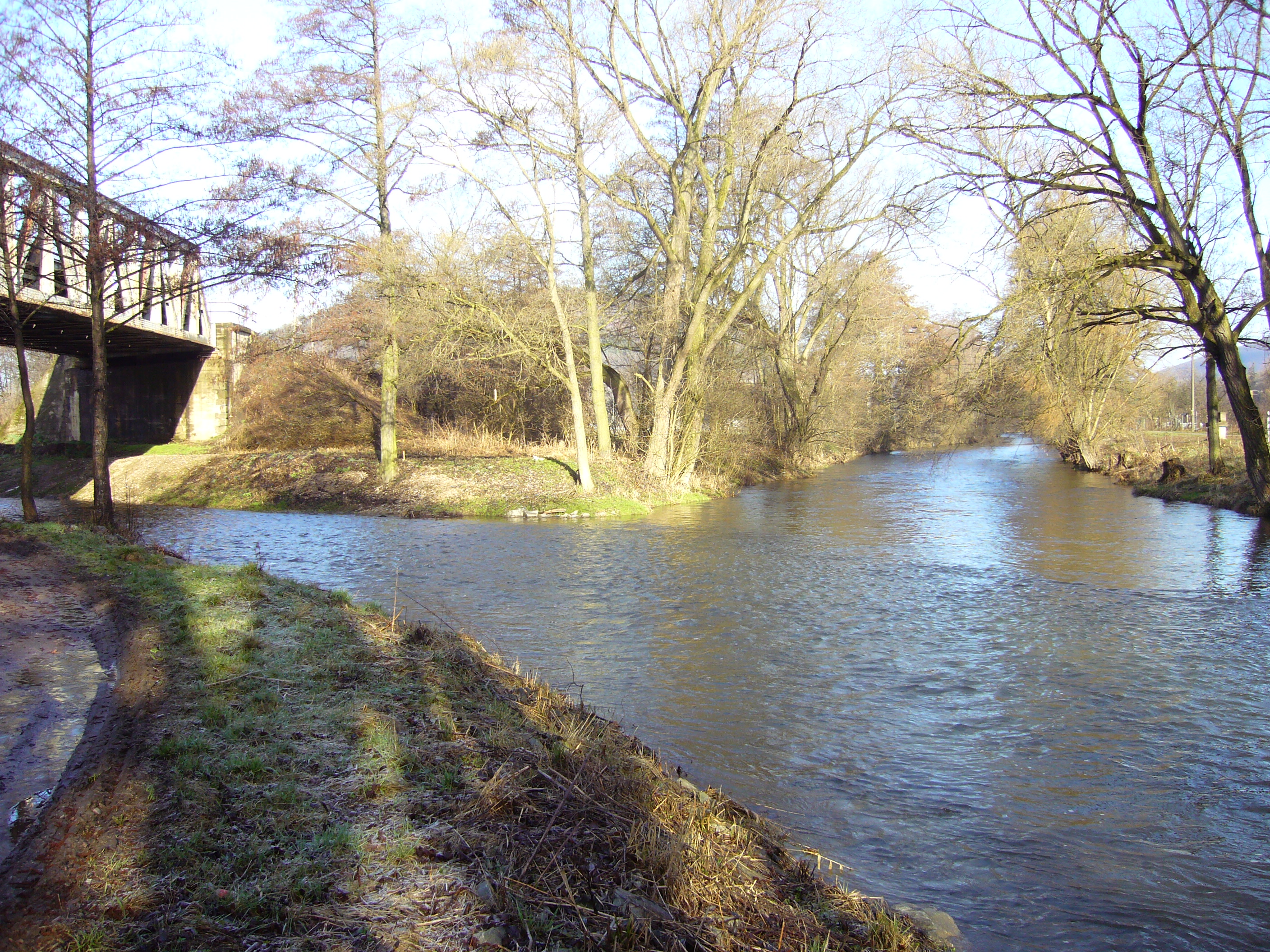 Confluence of Loučka (left) and Svratka in Předklášteří.